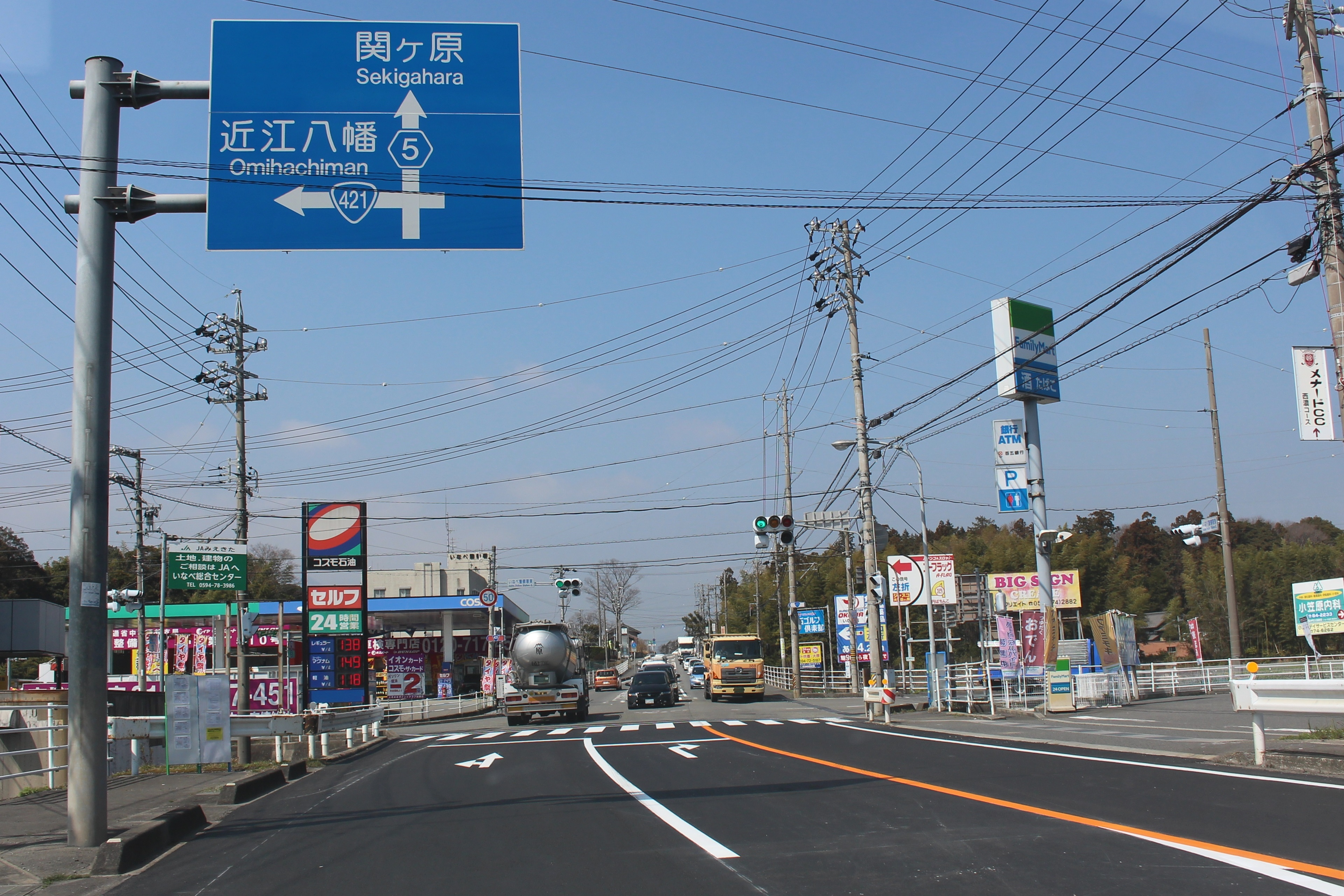 Route 421 Ishibotoke in Inabecho, Uno, Mie prefecture, Japan.